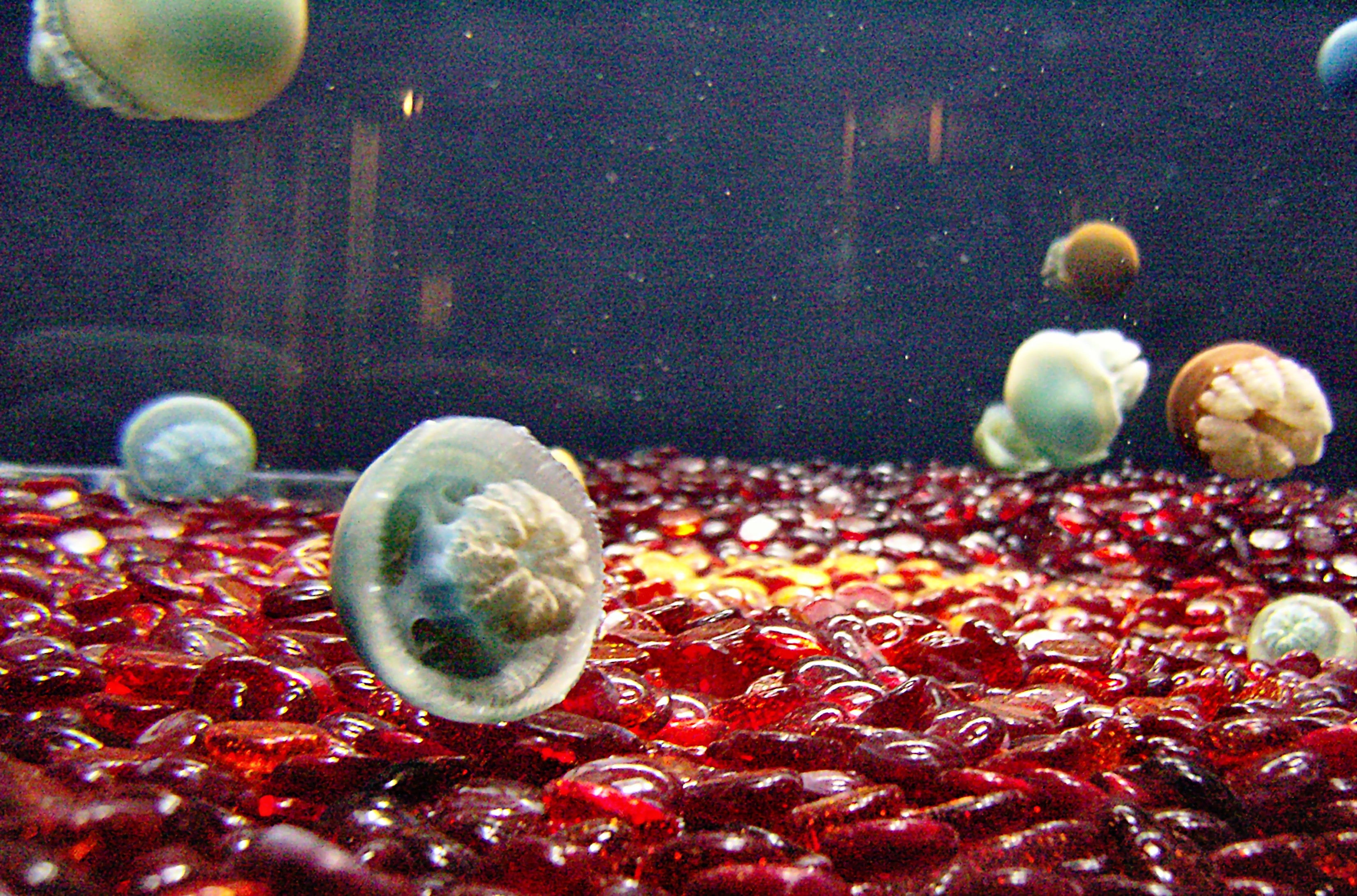 Blubber Jellyfish (Catostylus mosaicus, order Rhizostomae), Monterey Bay Aquarium, California.